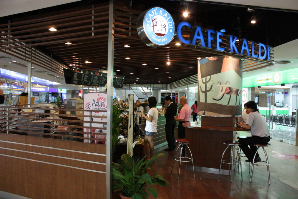 Café Kaldi Spotted: MBK, Bangkok, Thailand Gist: Starbucks-esque café Origin: Japan, 2000 Locations: Japan, Nepal and Thailand